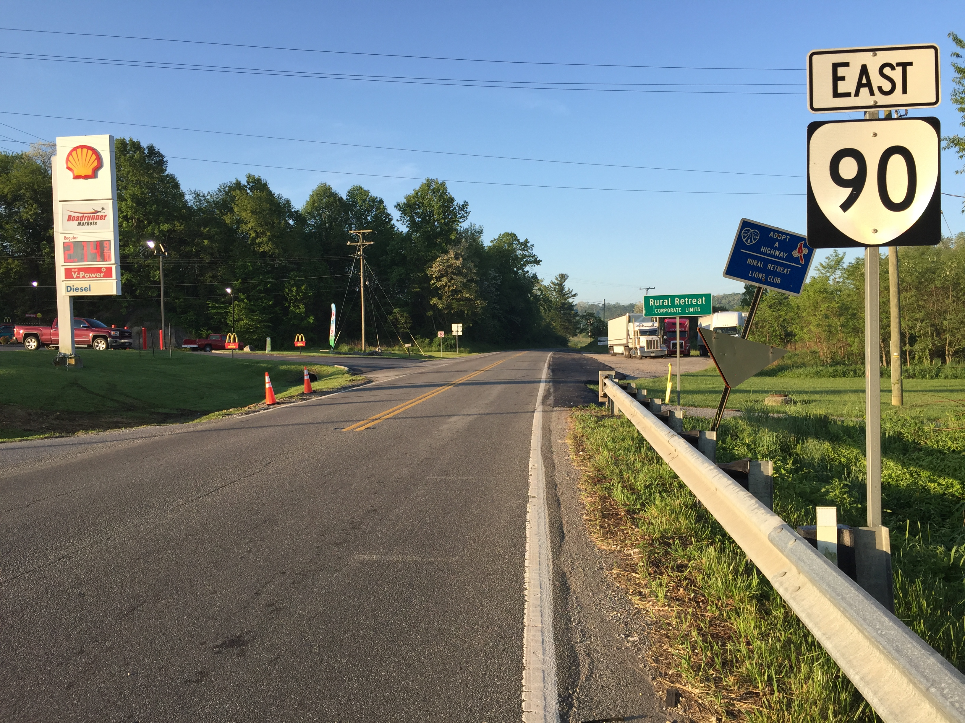 View south along Virginia State Route 90 (Blacklick Road) at Interstate 81 in Rural Retreat, Wythe County, Virginia